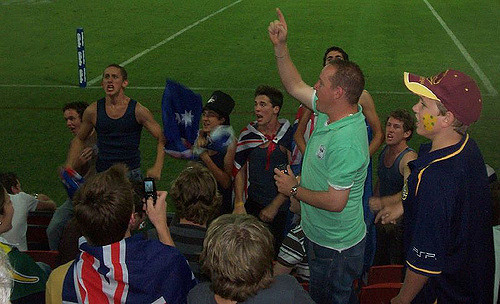 Aussie Aussie Aussie, Oi Oi Oi Australian fans chanting at Rugby League Test Match, Brisbane